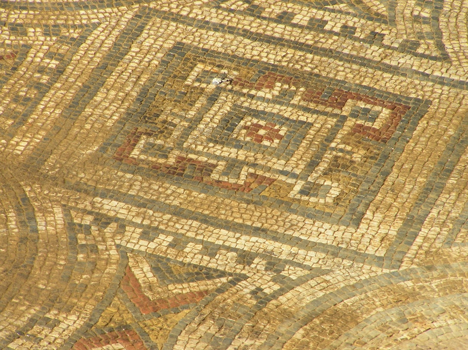 Villa Romana Orpheus de Camarzana de Tera